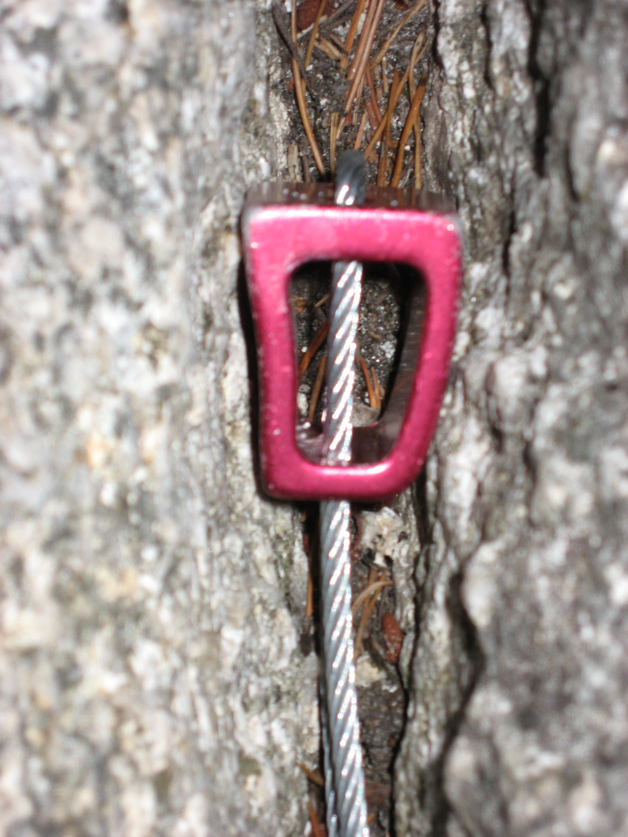 trad rock climbing gear..